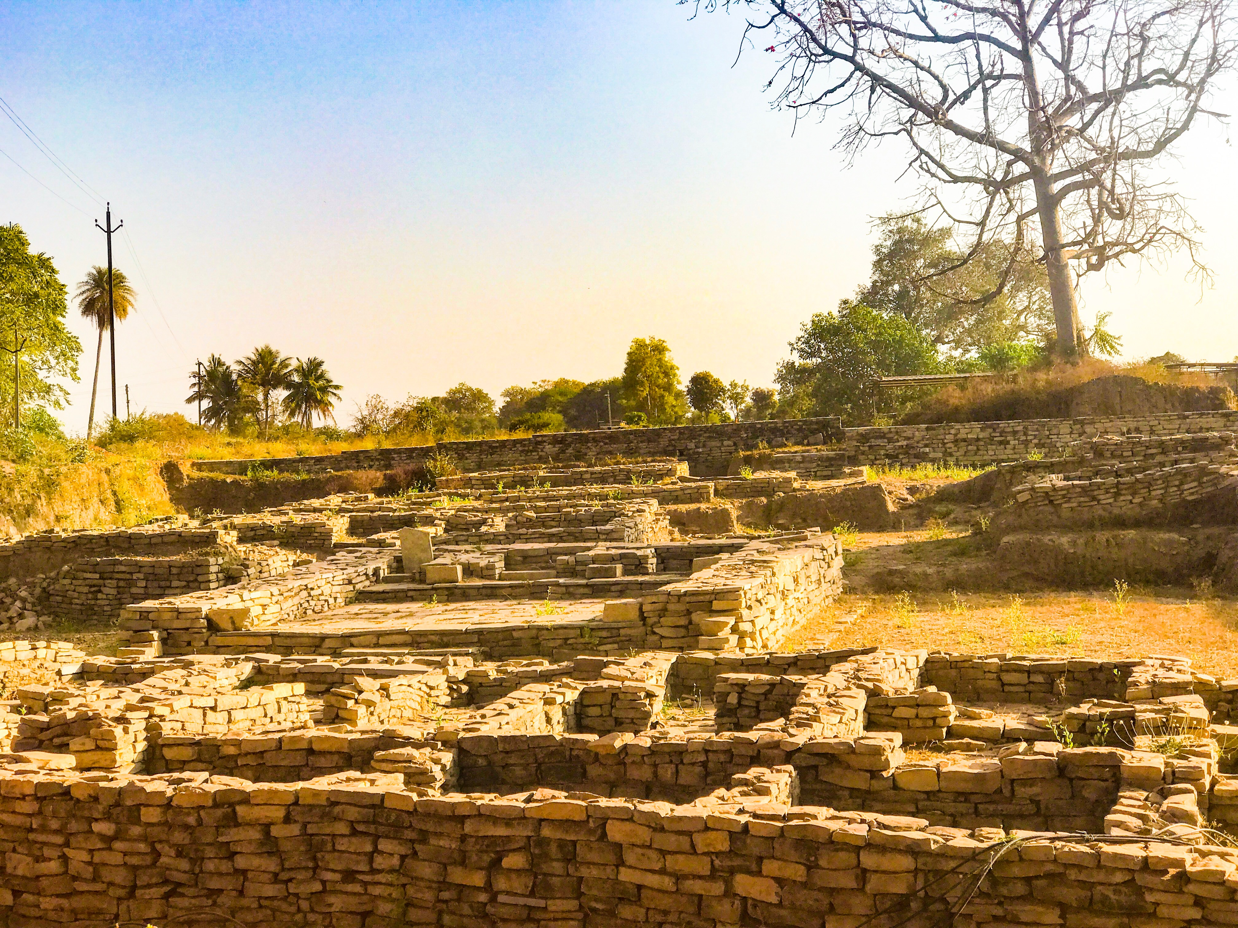 Sita known as Sita Baree